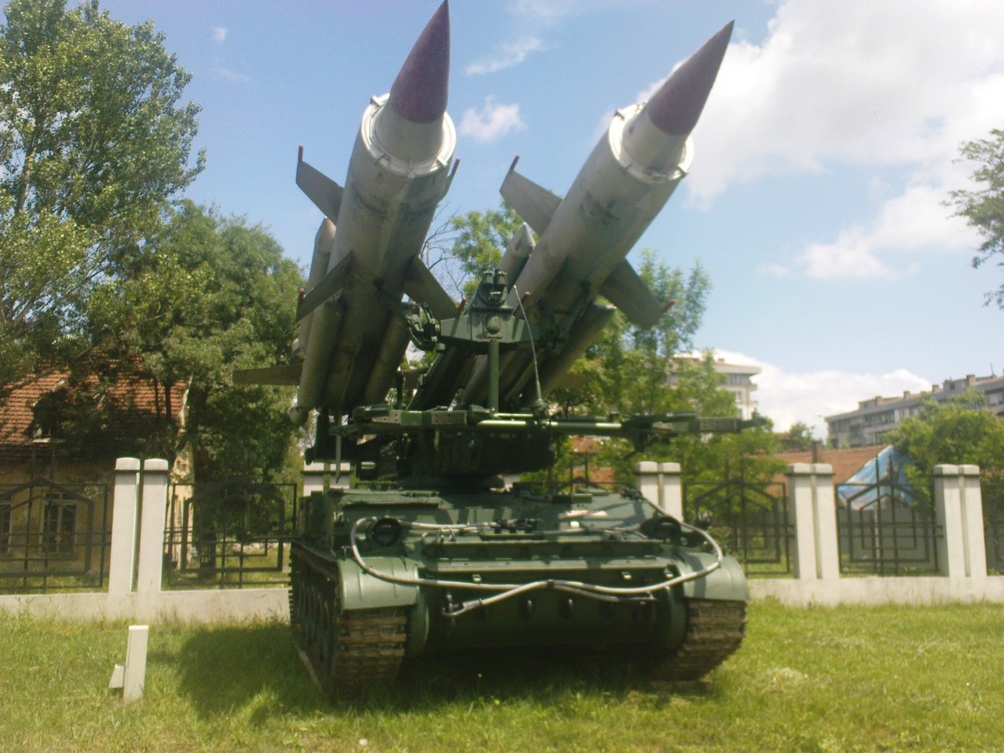 An SA-5 Ganef missile complex, National Museum of Military History, Sofia